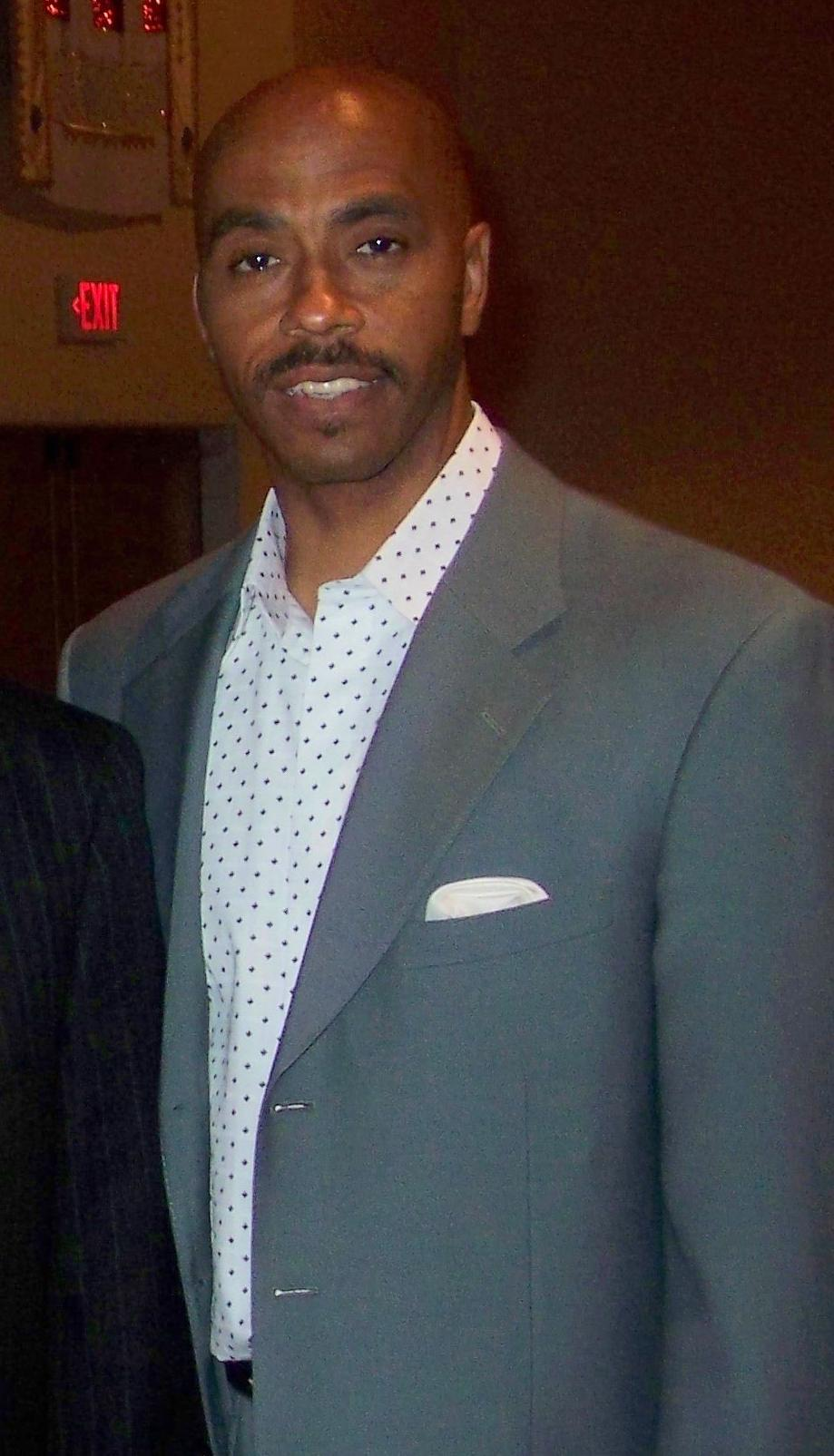 Recent 2007 photo of Darrell Griffith, aka Dr. Dunkenstein, at a local event.